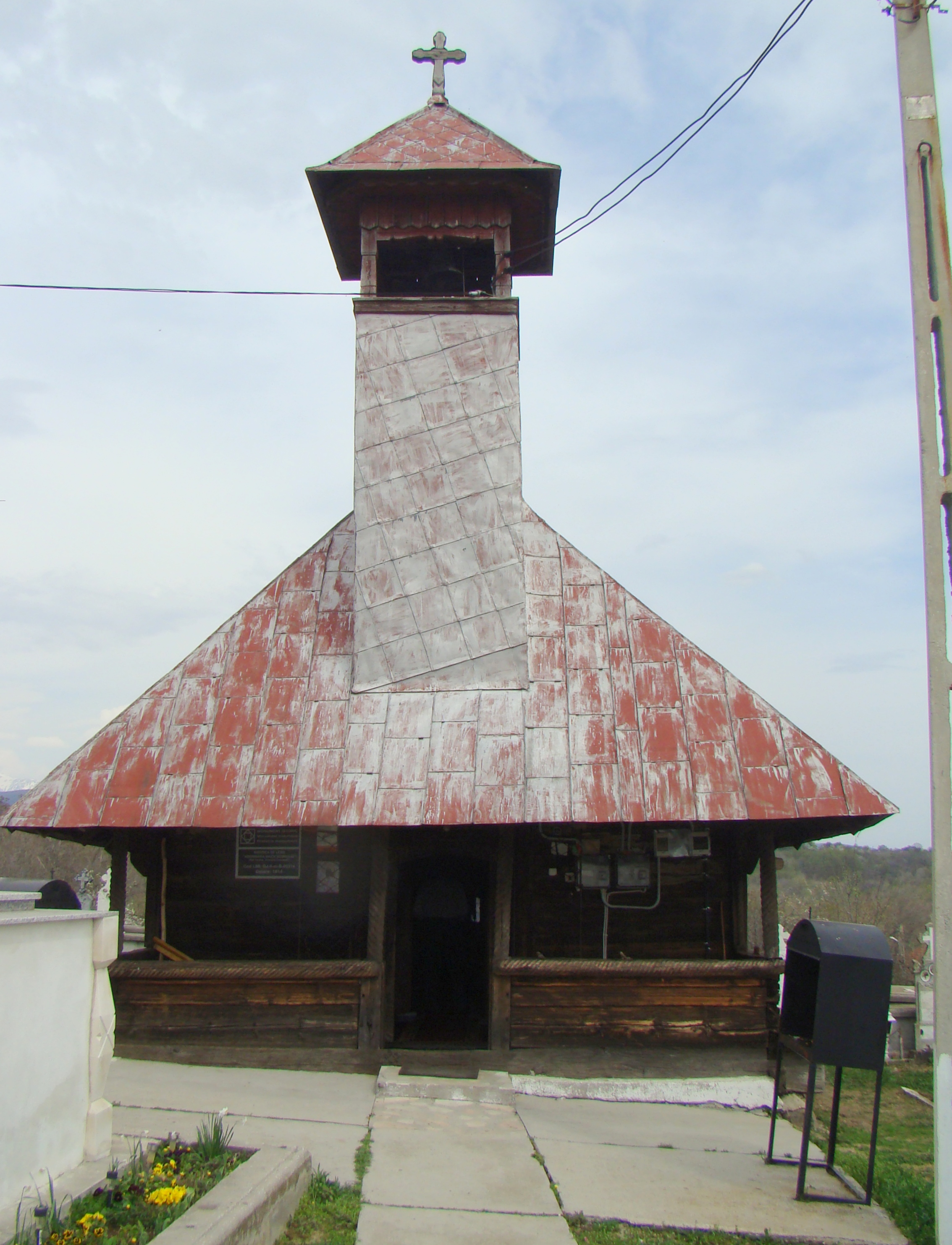 Wooden church in Horezu, Gorj county, Romania